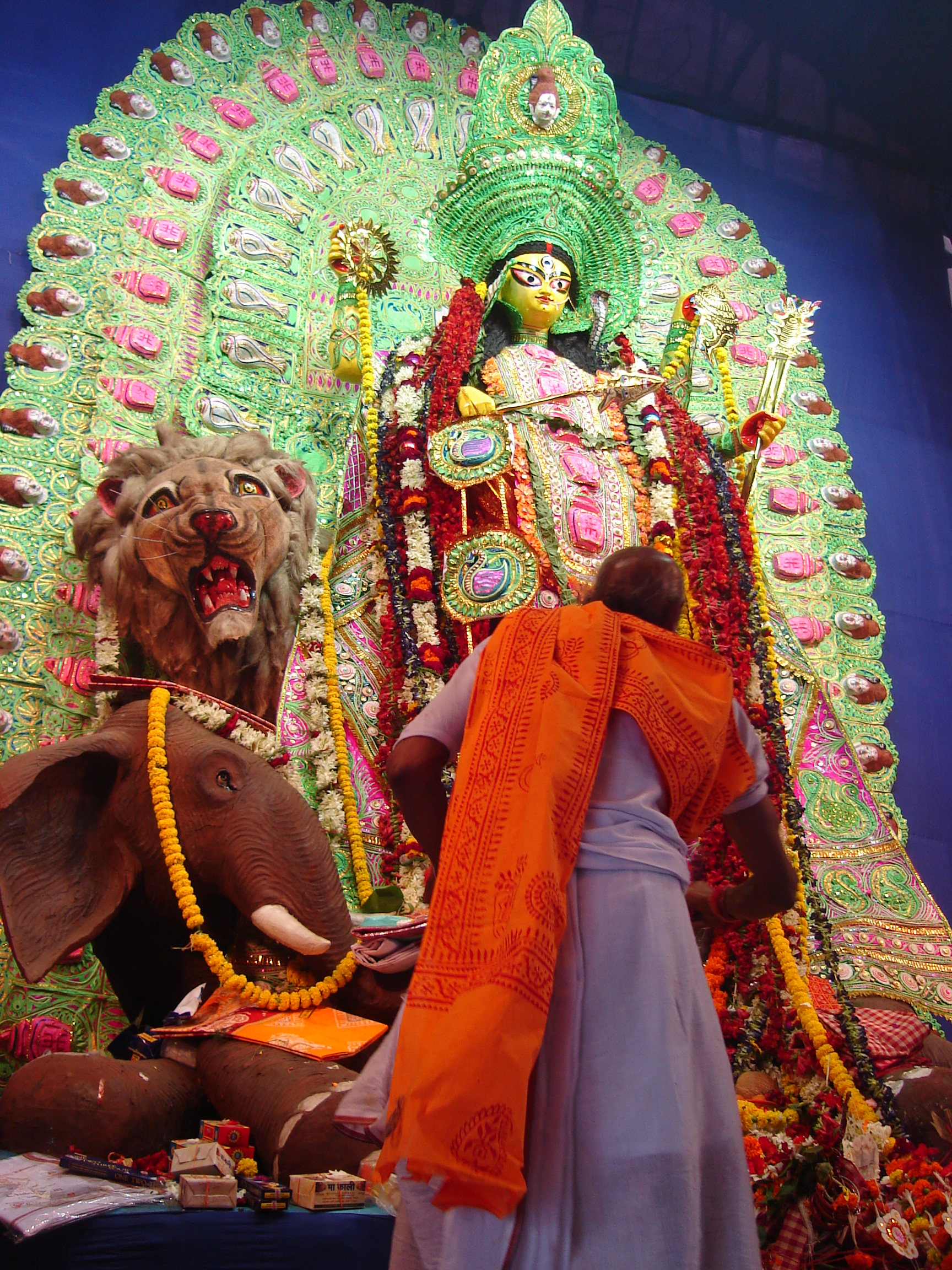 A priest performing puja at a Jagaddhatri Pandal in Central Kolkata